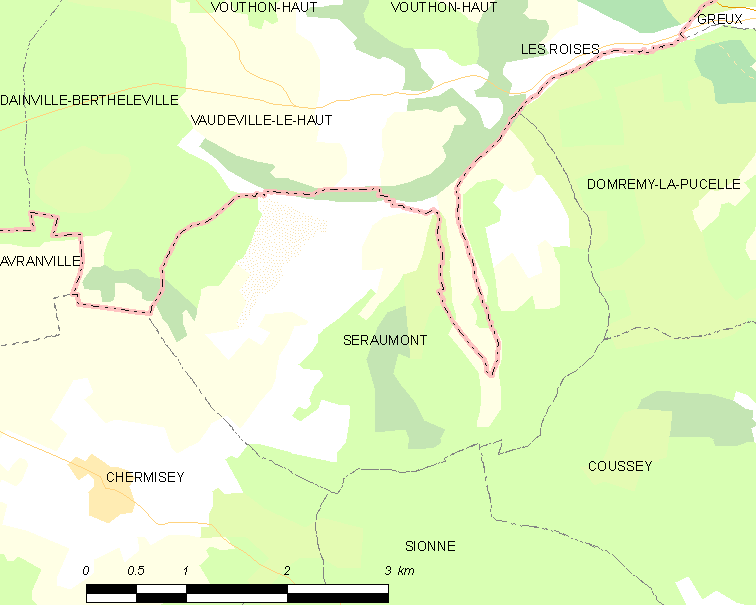 Map of French municipality Seraumont